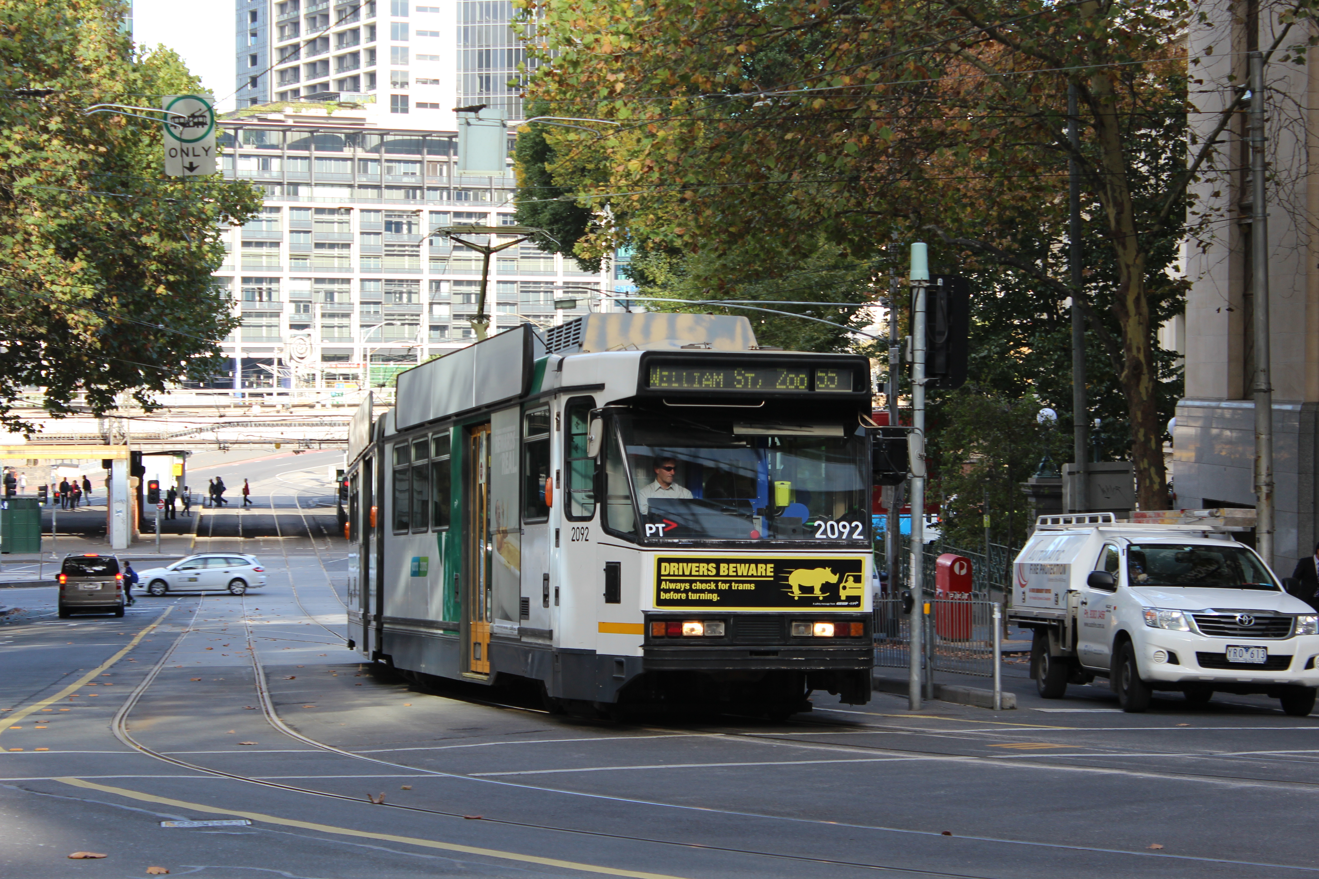 B2 2092 in Market St on route 55 towards West Coburg, 2013.